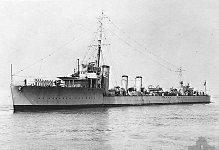 AWM Caption: PORT SIDE VIEW OF THE FLOTILLA LEADER HMAS ANZAC (I). ALTHOUGH HER APPEARANCE HAS CHANGED LITTLE FROM ITS ORIGINAL, AN EXHAUST FLUE HAS BEEN FITTED IMMEDIATELY FORWARD OF THE BRIDGE. AN EXTENSION FOR A CHART TABLE HAS BEEN BUILT INTO THE PORT SIDE OF THE BRIDGE STRUCTURE.